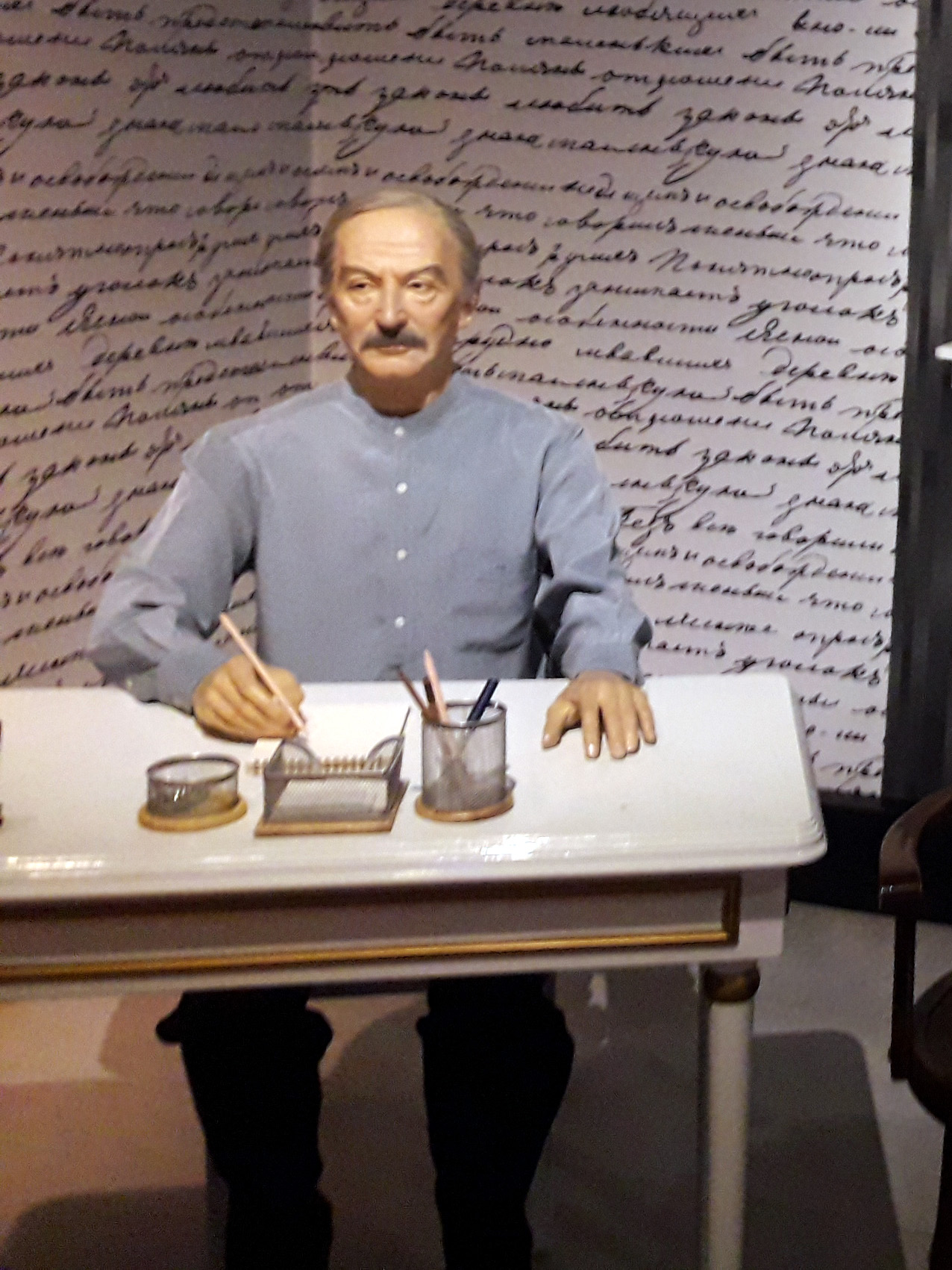 Yılmaz Büyükerşen wax Museum, Eskişehir (İlhan Selçuk)